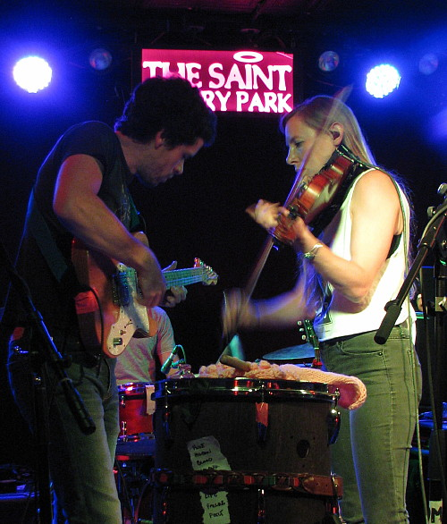 River Whyless on stage at The Saint in Asbury Park, NJ 06192017. Photo by LHCollins